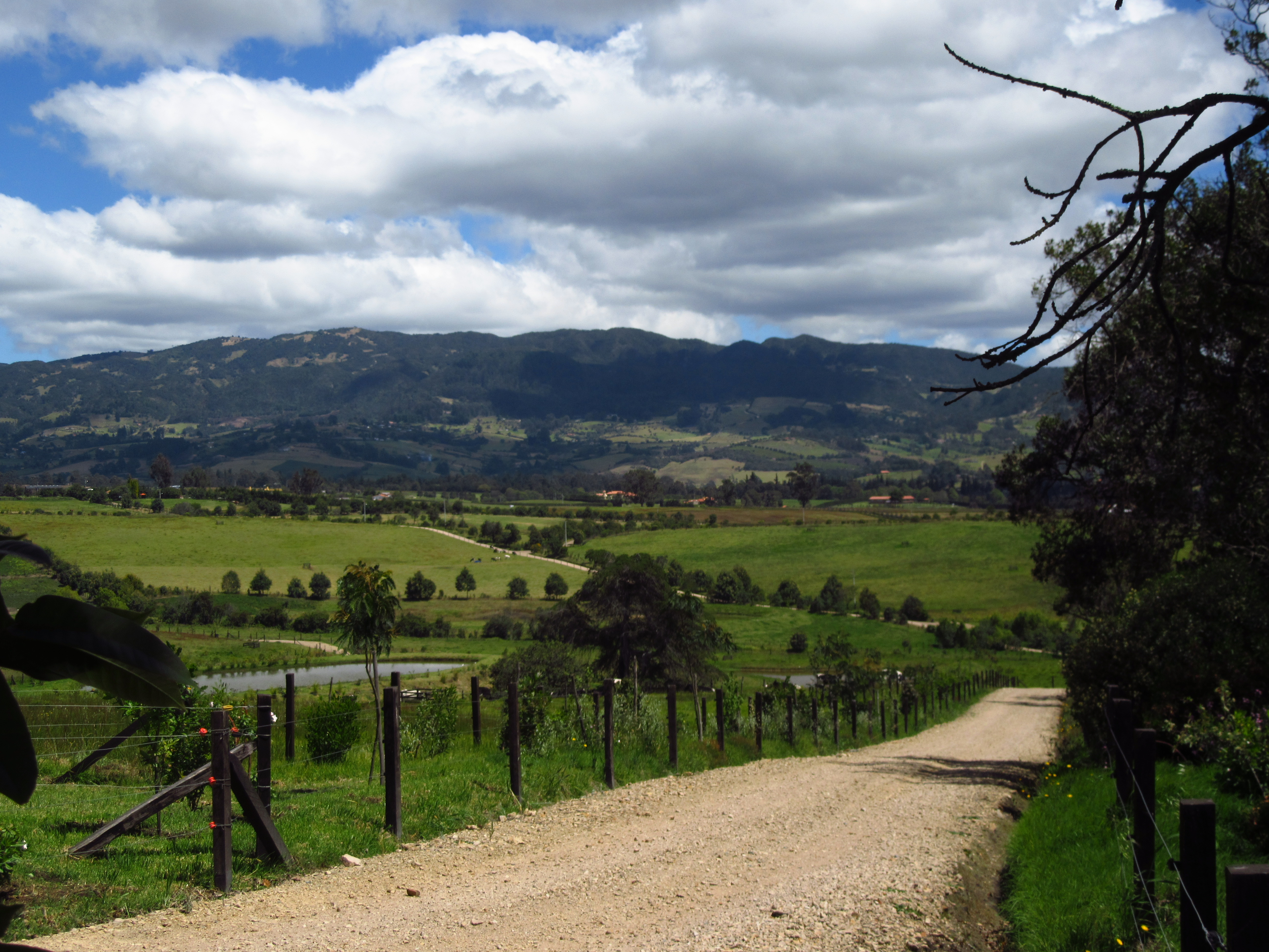 Subachoque